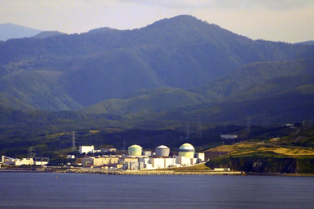 Tomari Nuclear Power Plant (Tomari, Hokkaidō, Japan)